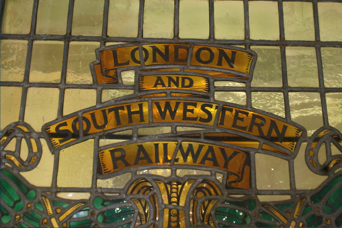 Old railway company titles in London, 2013